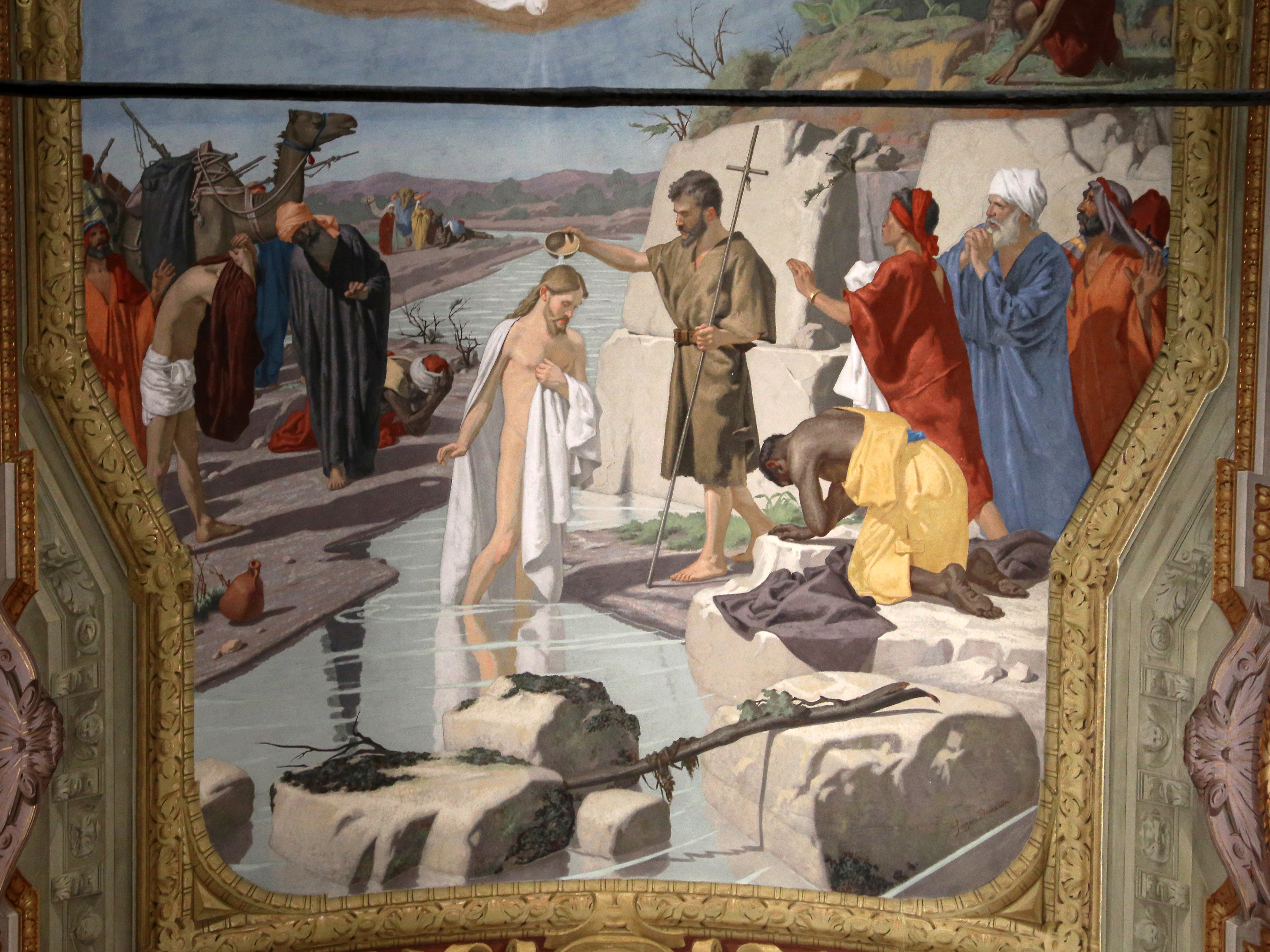 San Giovanni Battista in San Domenico (Savona)